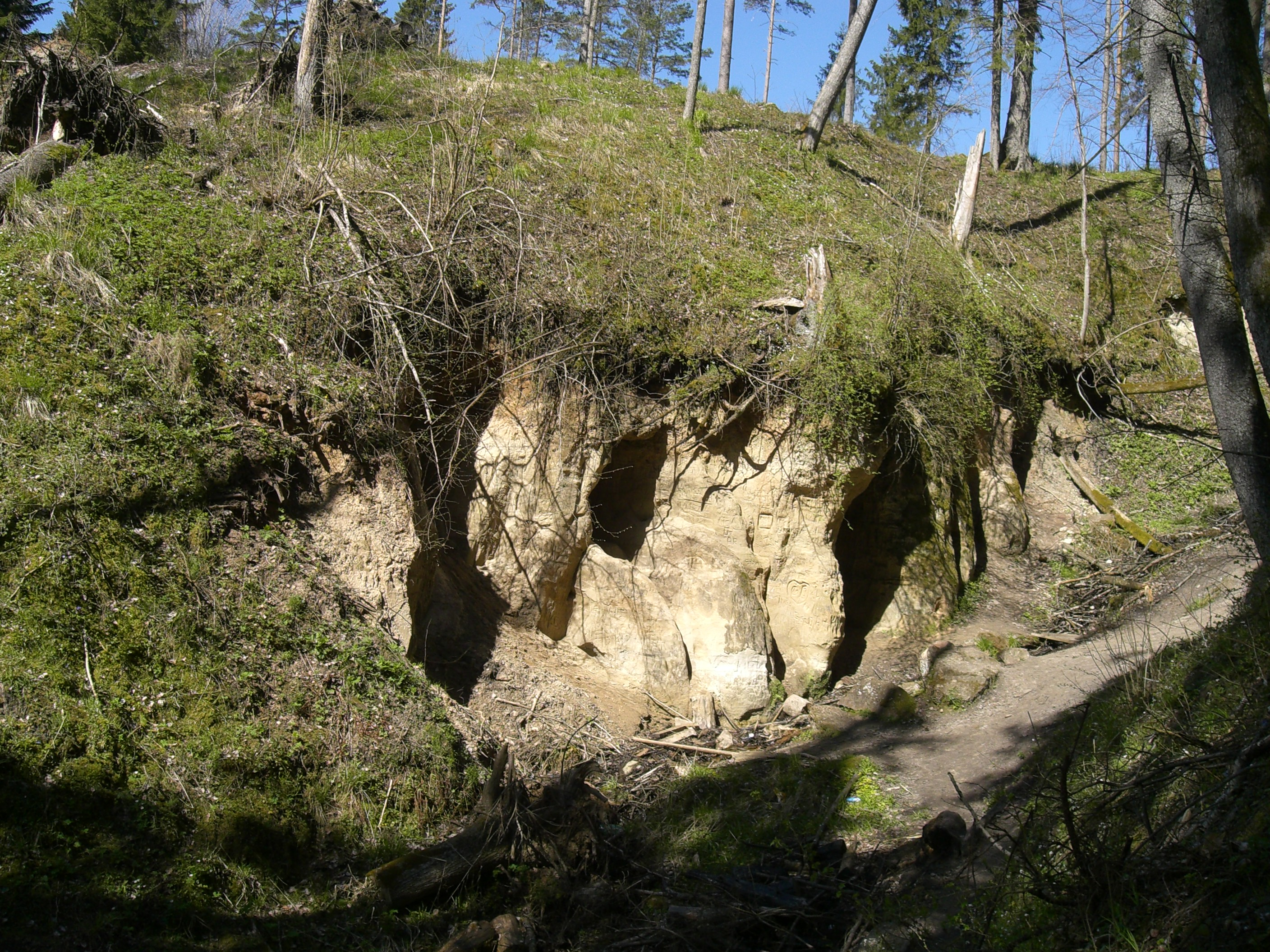 Nature monument Māras kambari in Latvia.